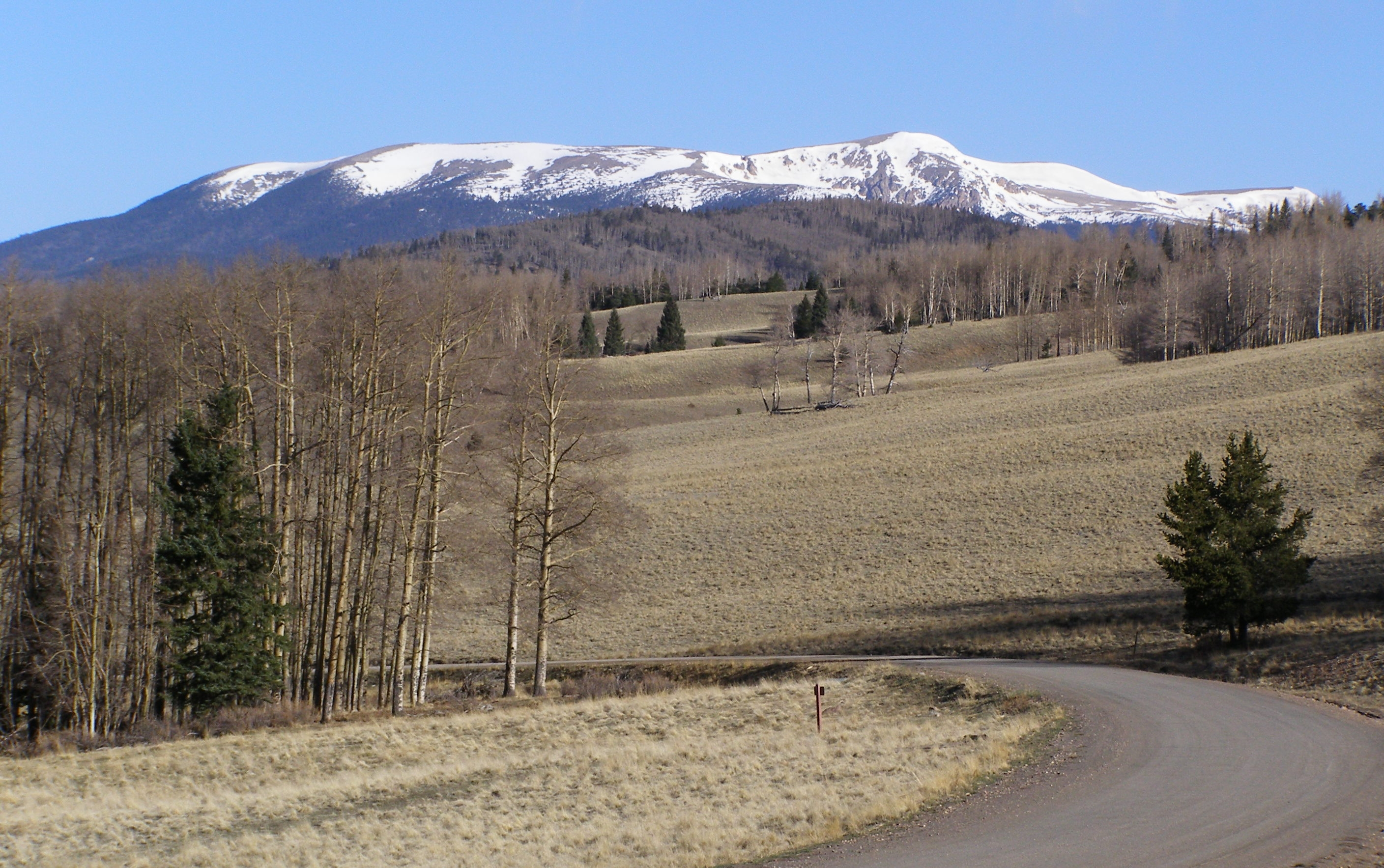 Big Costilla Peak, taken from along Forest Road 1950 in Valle Vidal, from a scenic viewpoint halfway between Comanche Point and Shuree Ponds. This peak is on private property, and totally off-limits to hiking.